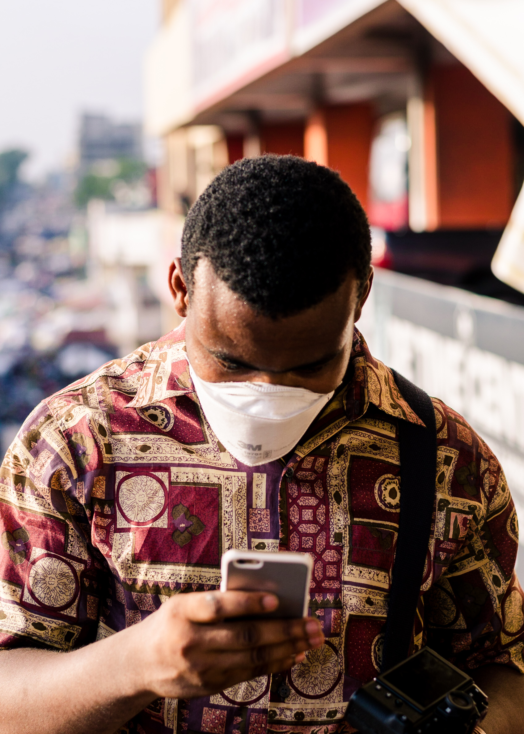 Photos from the streets of Accra before and during lockdown as measures to fight the COVID-19 pandemic.